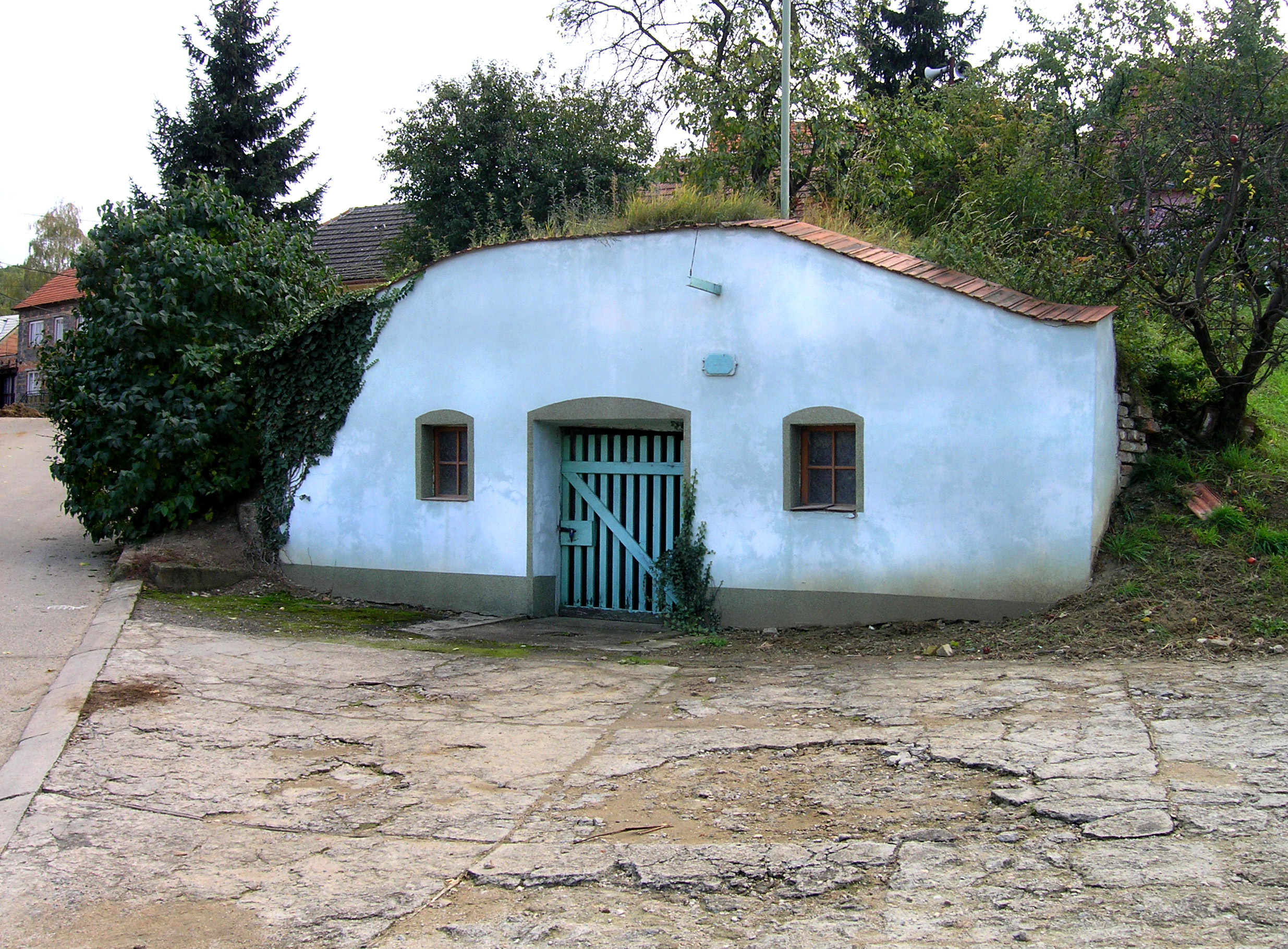 Wine cellar in Němčičky village, Czech Republic